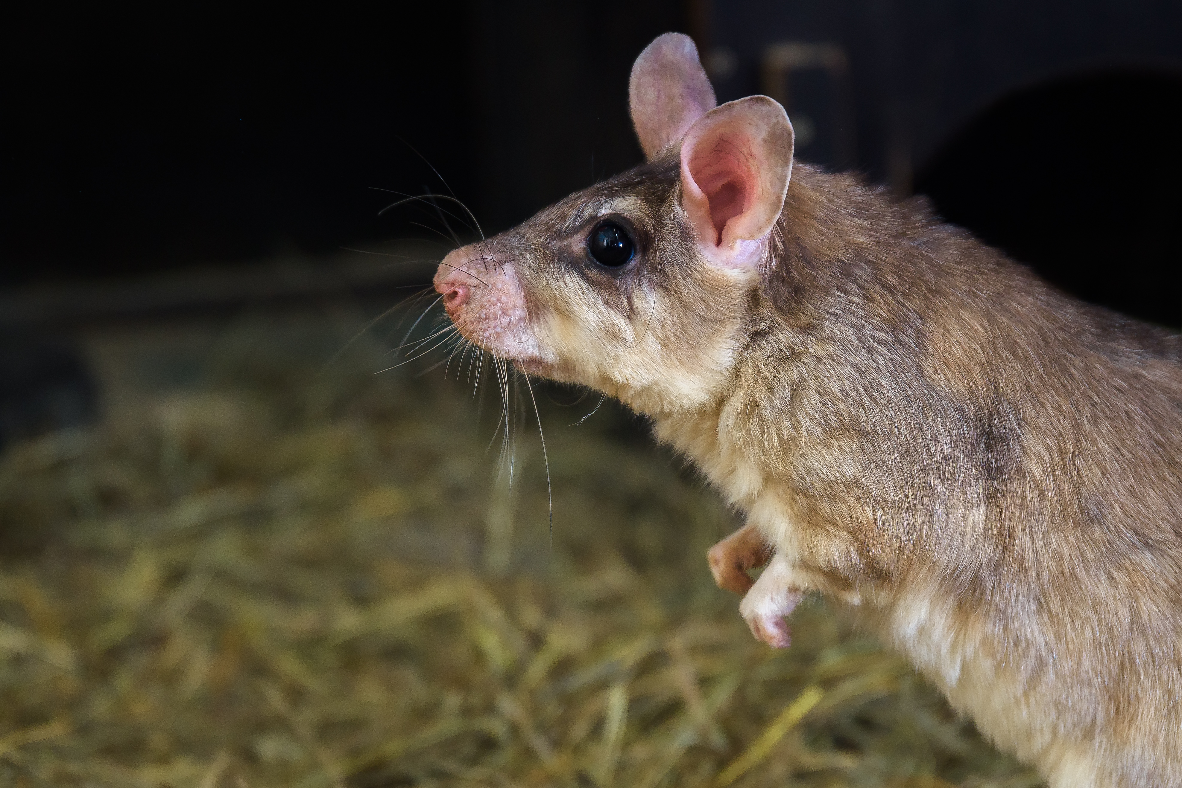 Malagasy giant rat in Prague Zoo